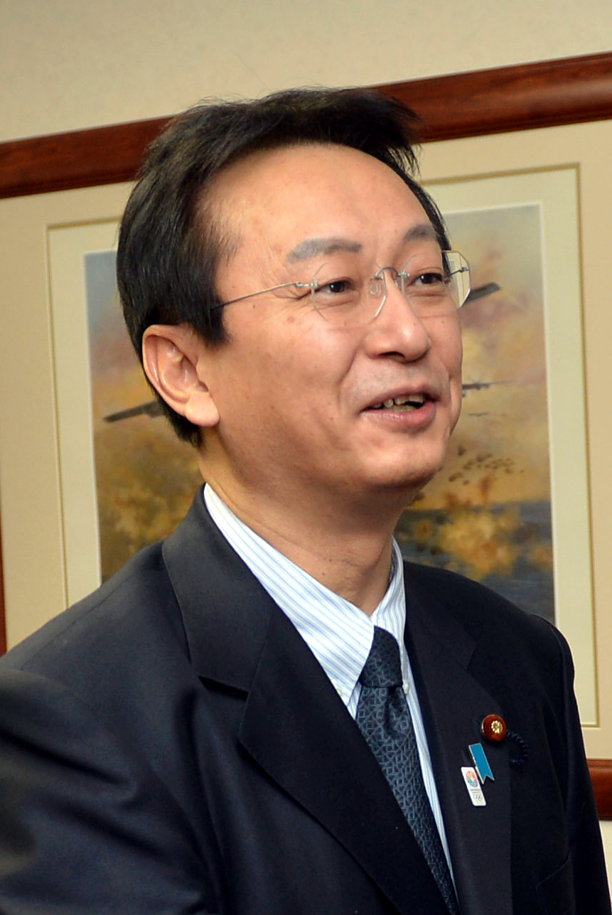 Ashton Carter, Deputy Secretary of Defense, met Akinori Eto, Senior Vice-Minister of Defense, at the Yokota Air Base in Tōkyō Metropolis on March 17, 2013.